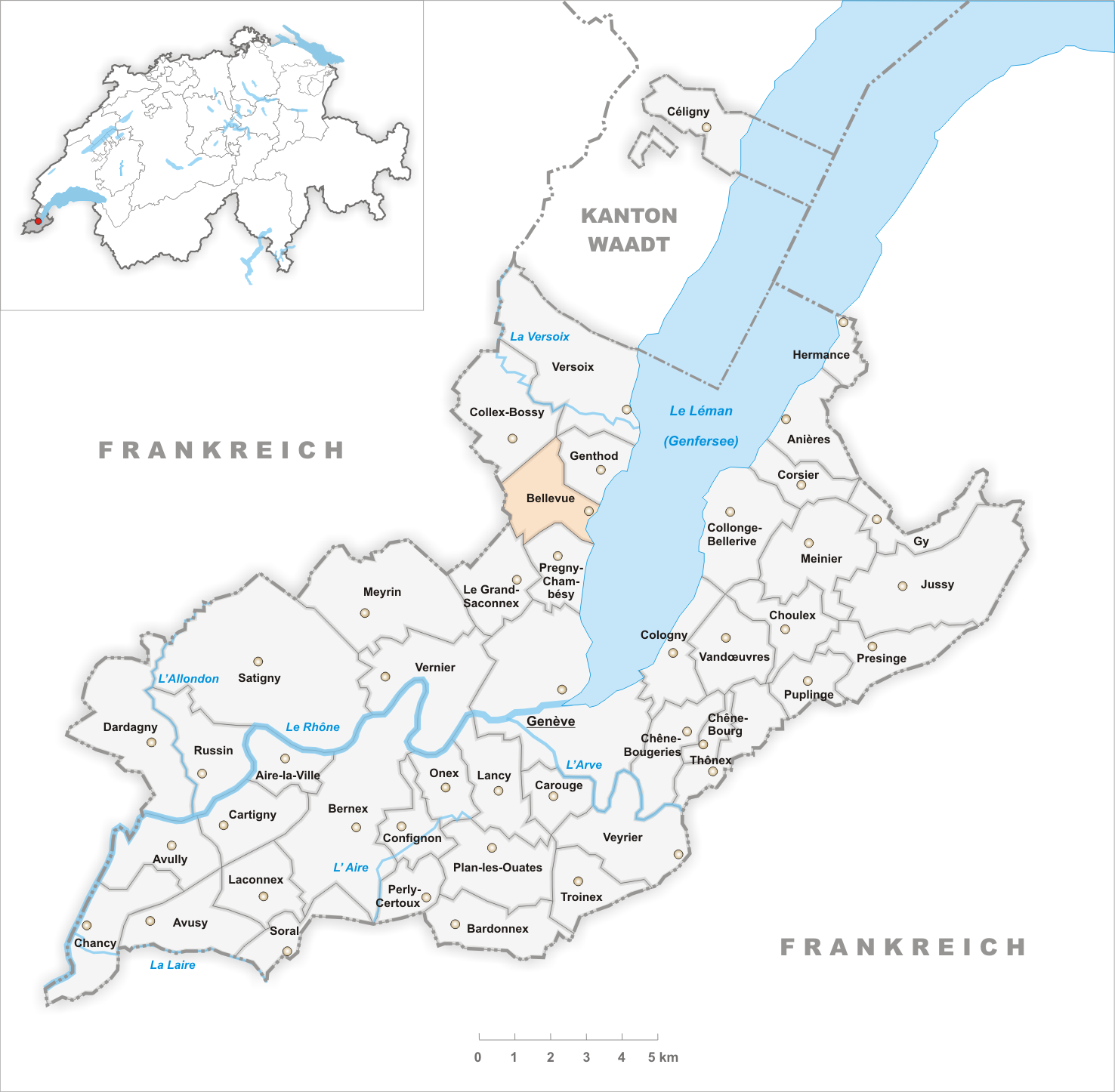 Municipality Bellevue